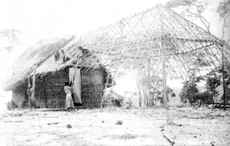 First Church of the Peramiho abbey in Tanzania